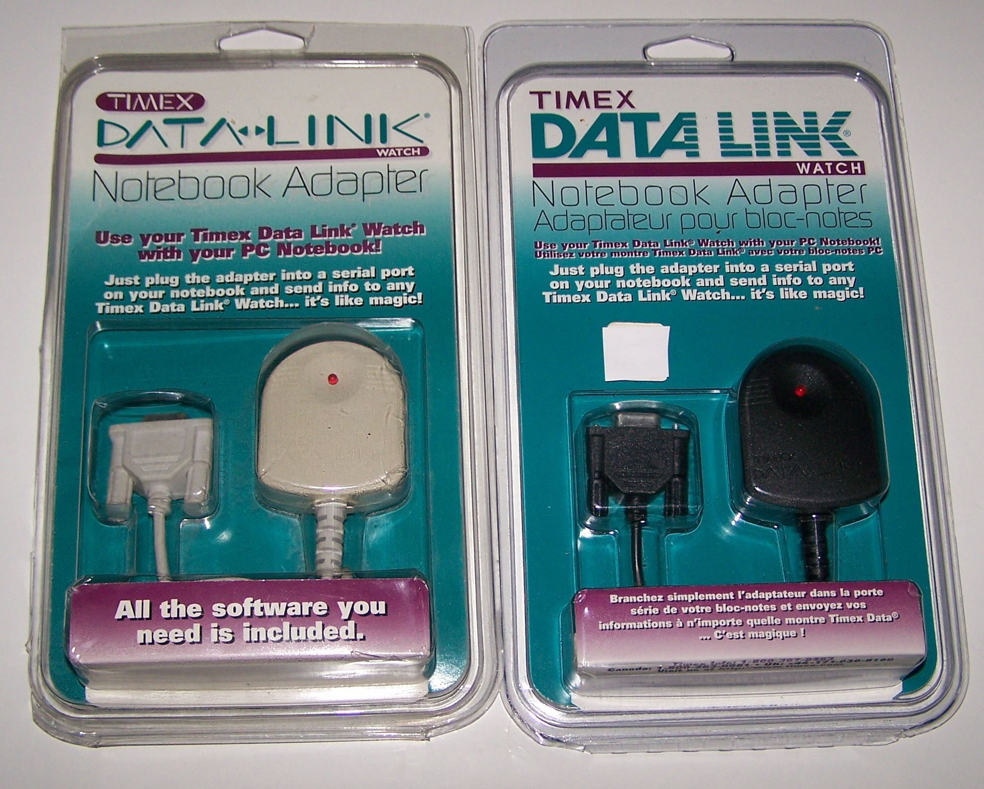 Please see filename